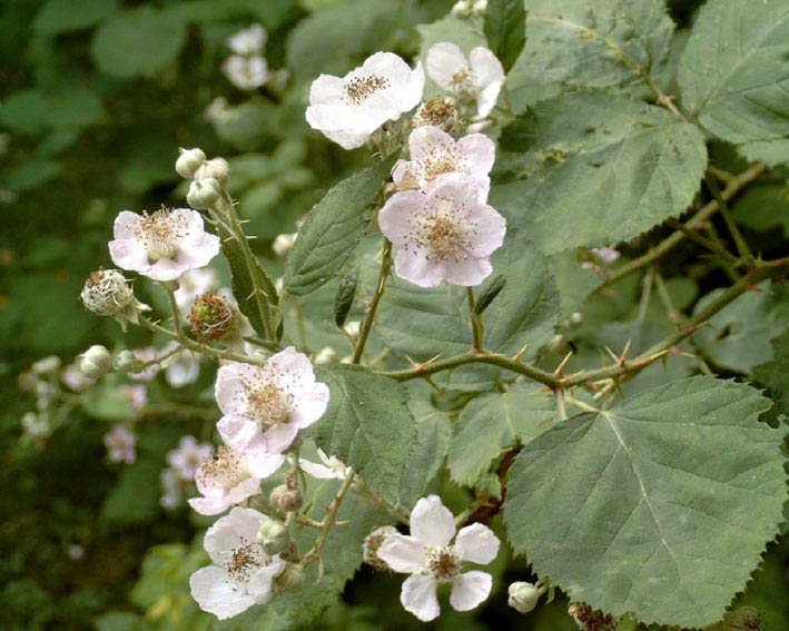 Rubus flower in pollination process